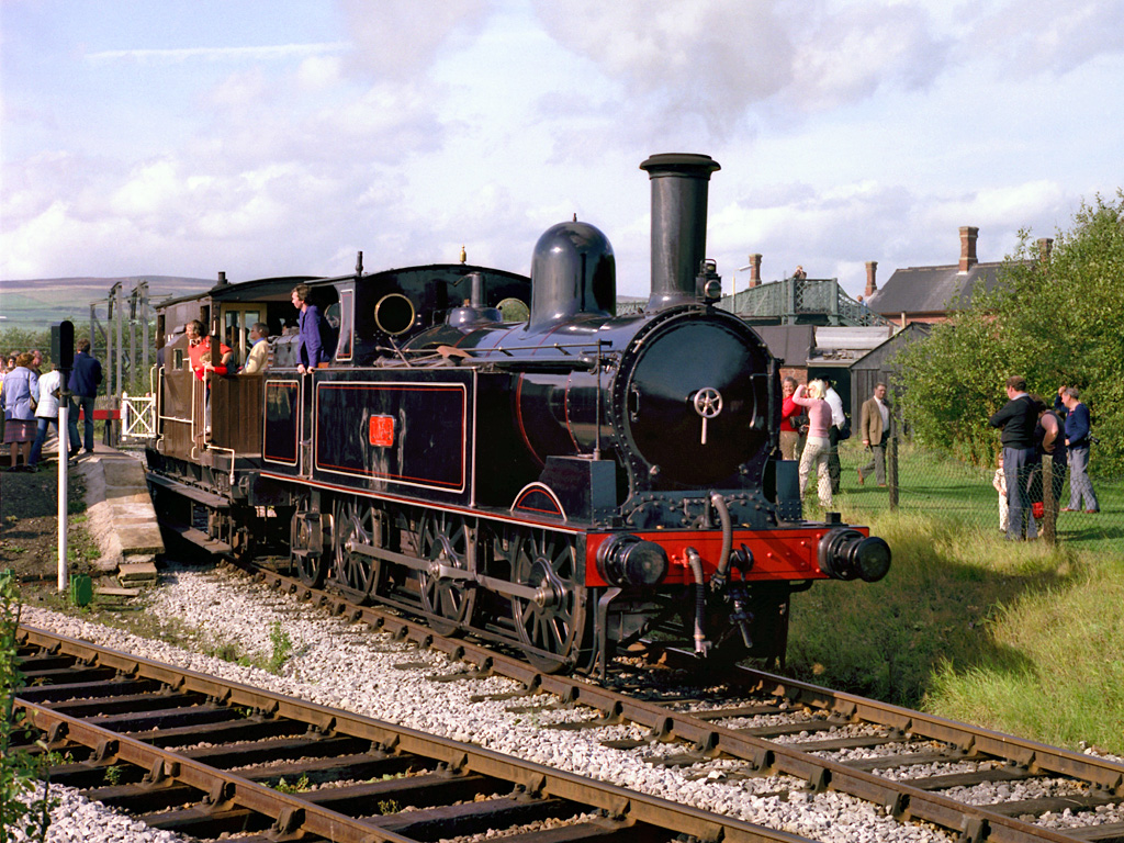 London and North Western Railway Webb 0-6-2T 'Coal Tank' class locomotive number 1054 giving brake van rides on the demonstration line at the Dinting Railway Centre, Higher Dinting. Sunday 3rd October 1982